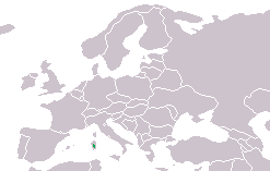 Distribution of Speleomantes supramontis, based on Nöllert/Nöllert: "Die Amphibien Europas"